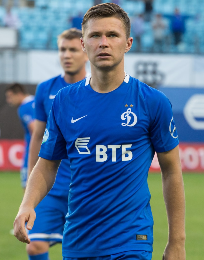 Aleksandr Sapeta with FC Dynamo Moscow in a game against FC Tosno.